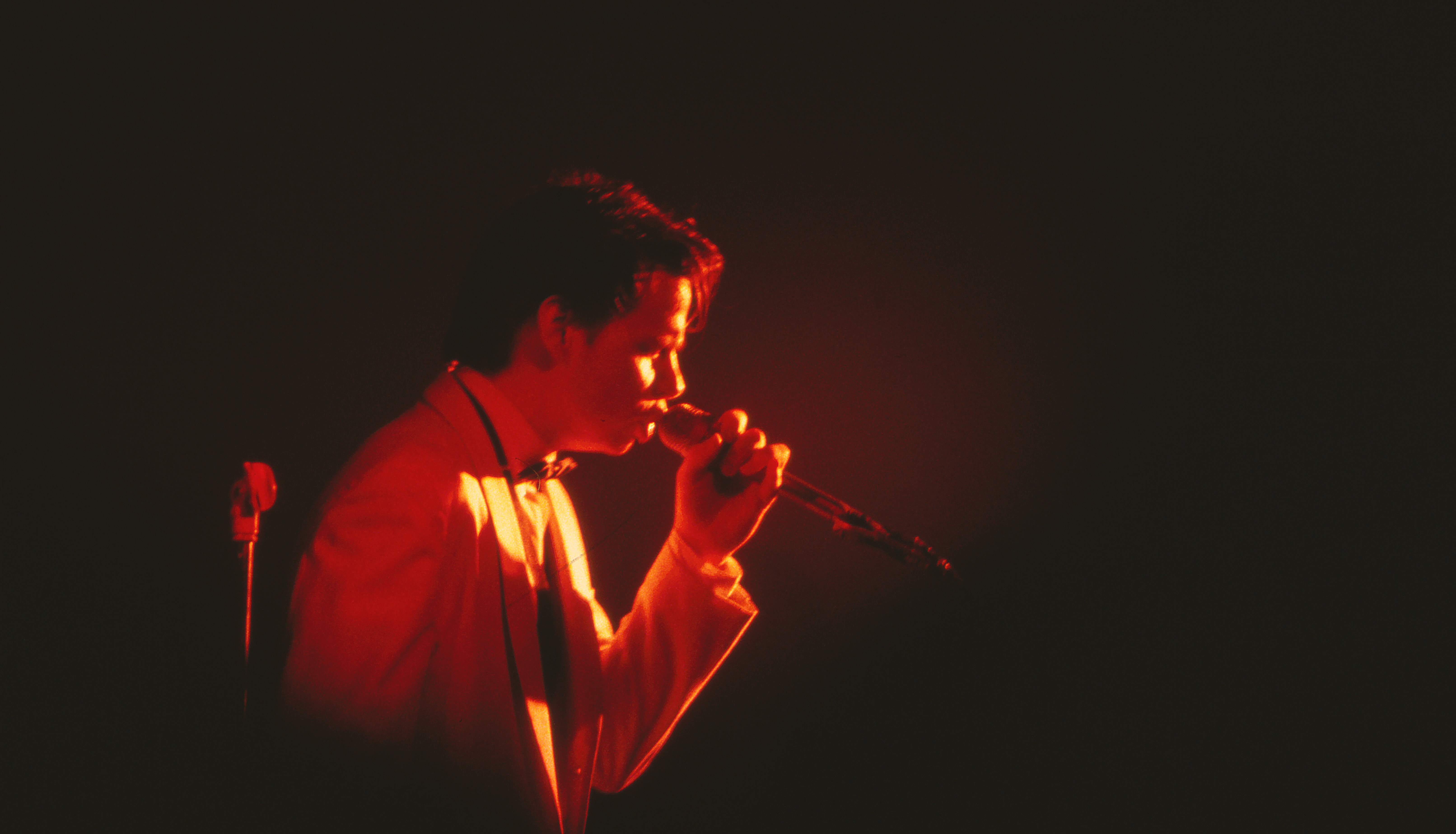 James White & The Contortions, 1981, Berlin: SO 36